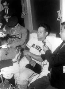 Kawakami announsed his retired in 1958